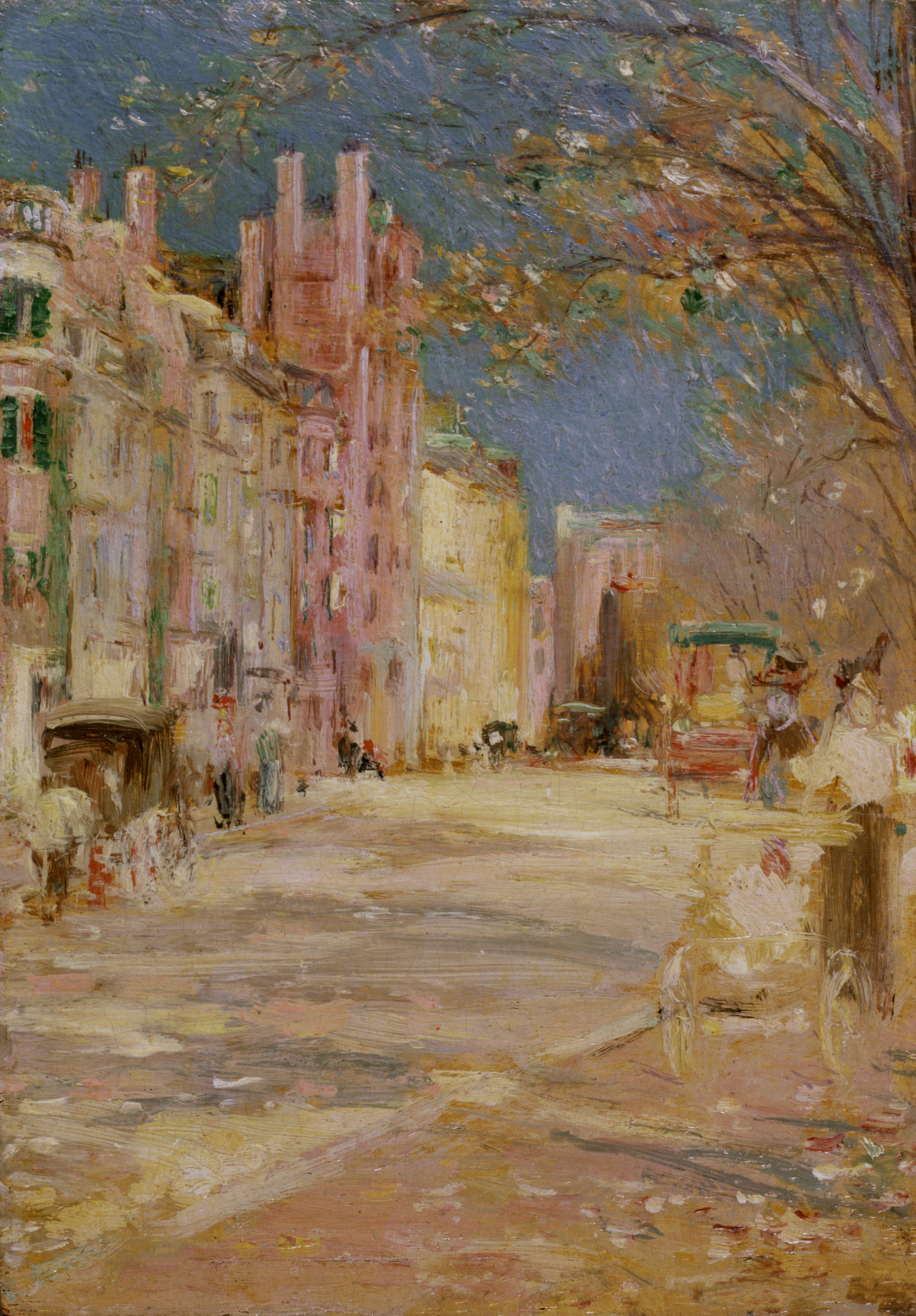 For years, Bannister painted landscapes with muted colors that recalled the works of the French Barbizon school so popular among New England collectors during the second half of the 19th century. However, in one of his last works, which he painted during a stay in Boston in the late 1890s, Bannister adopted a much more vivid palette. Bannister, the son of a black immigrant from Barbados and his Scottish-Canadian wife, was born in St. Andrews, New Brunswick, Canada. Initially a seaman, he settled in Boston, where he eked out a living as a hairdresser and as a hand-tinter of photographs. With the encouragement of his wife, he turned to painting and for a while shared a studio with Edwin Lord Weeks. His atmospheric landscapes found a ready market, especially in Boston. At the Philadelphia Centennial Exhibition in 1876, Bannister received a first-place medal. He was the first African-American artist to win a national award, but the judges were surprised by his ethnic background. Bannister resided in Providence, Rhode Island, where he became one of the seven founding members of the Providence Art Club, an institution that still flourishes today.